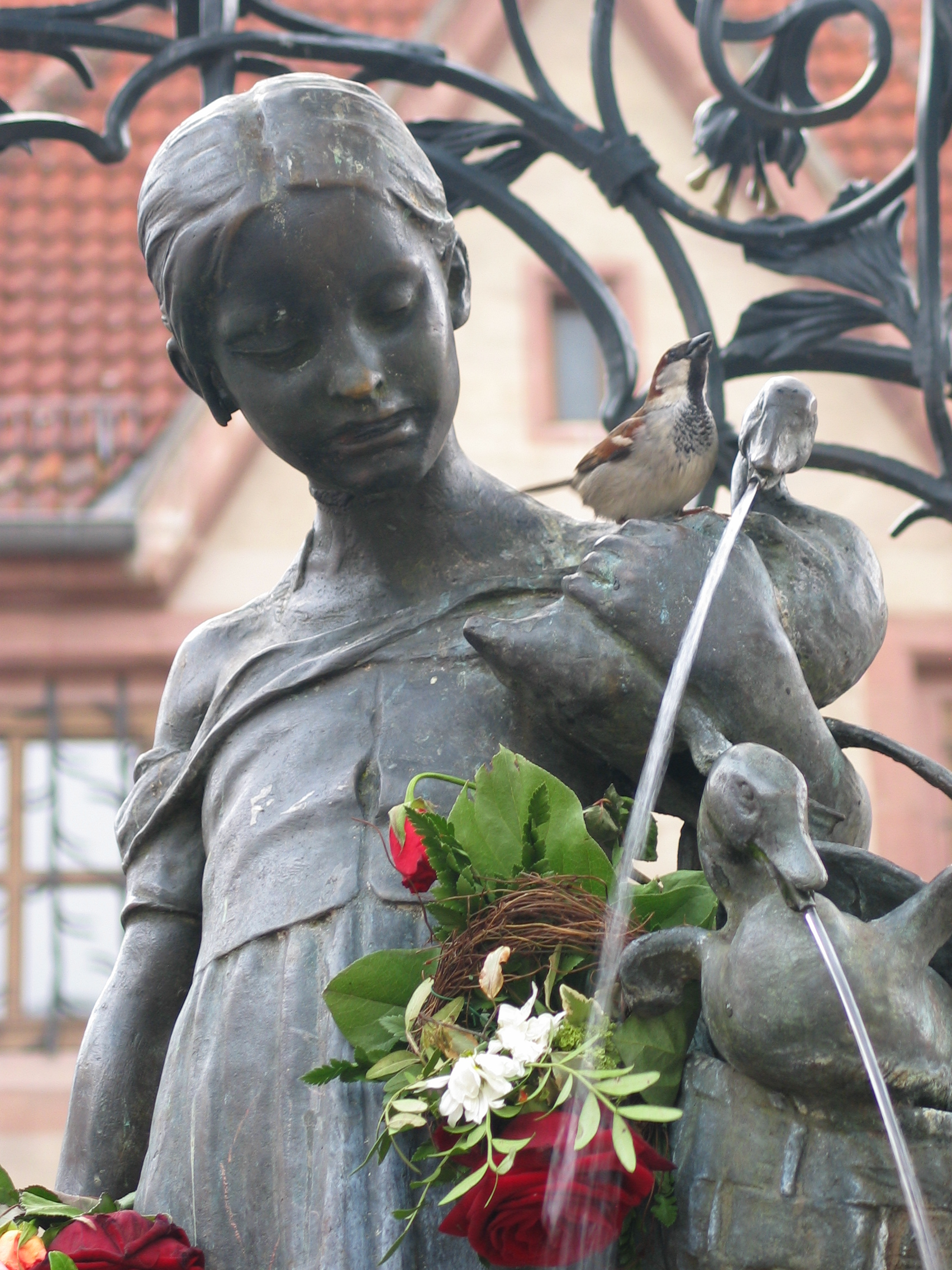 Gänseliesel fountain on the market square in Göttingen. Old townhall in the background.